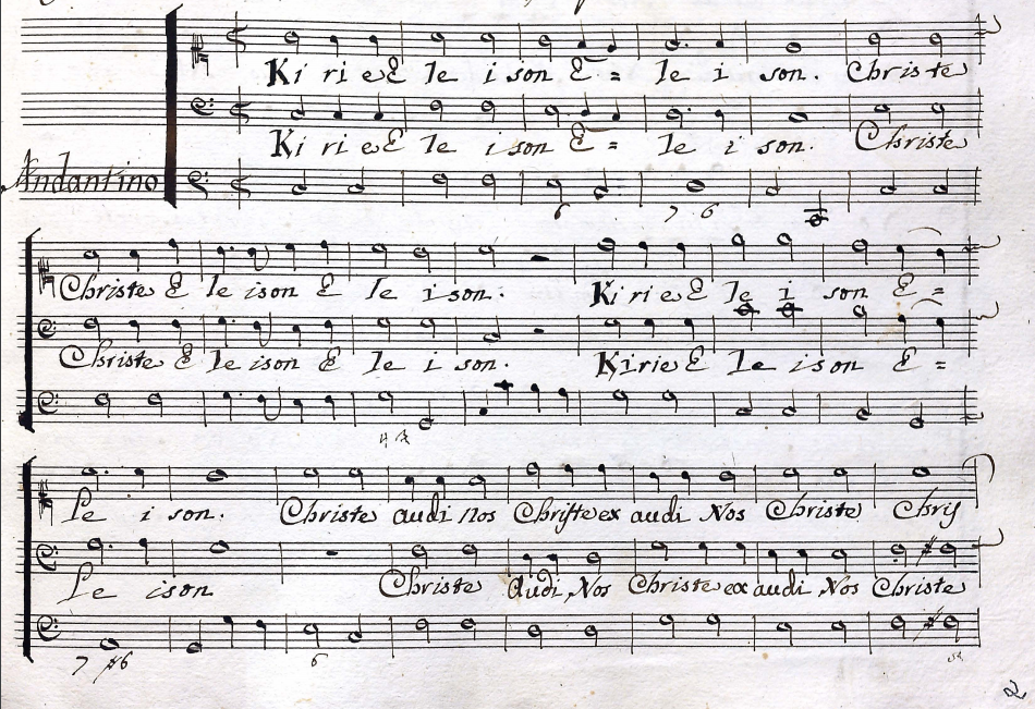 First page of "Litanie per soprano e basso" composed by Giovan Gualberto Brunetti (1706-1787), as keep in a manuscript in Fondo Ricasoli of University of Kentucky in Louisville, dated 1795